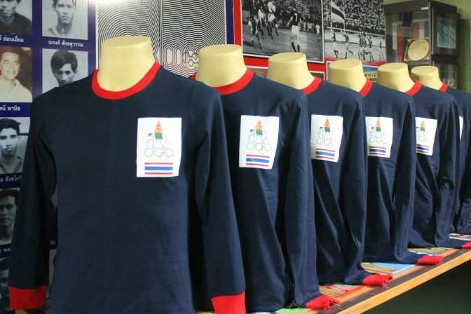 Thai team 1968 Summer Olympics shirt